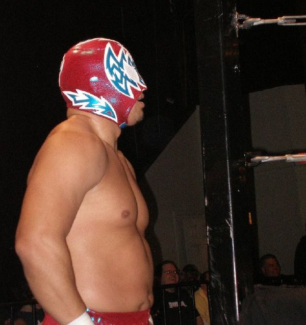 Incongito at Chikara's 2008 King of Trios tournament in March 2008.